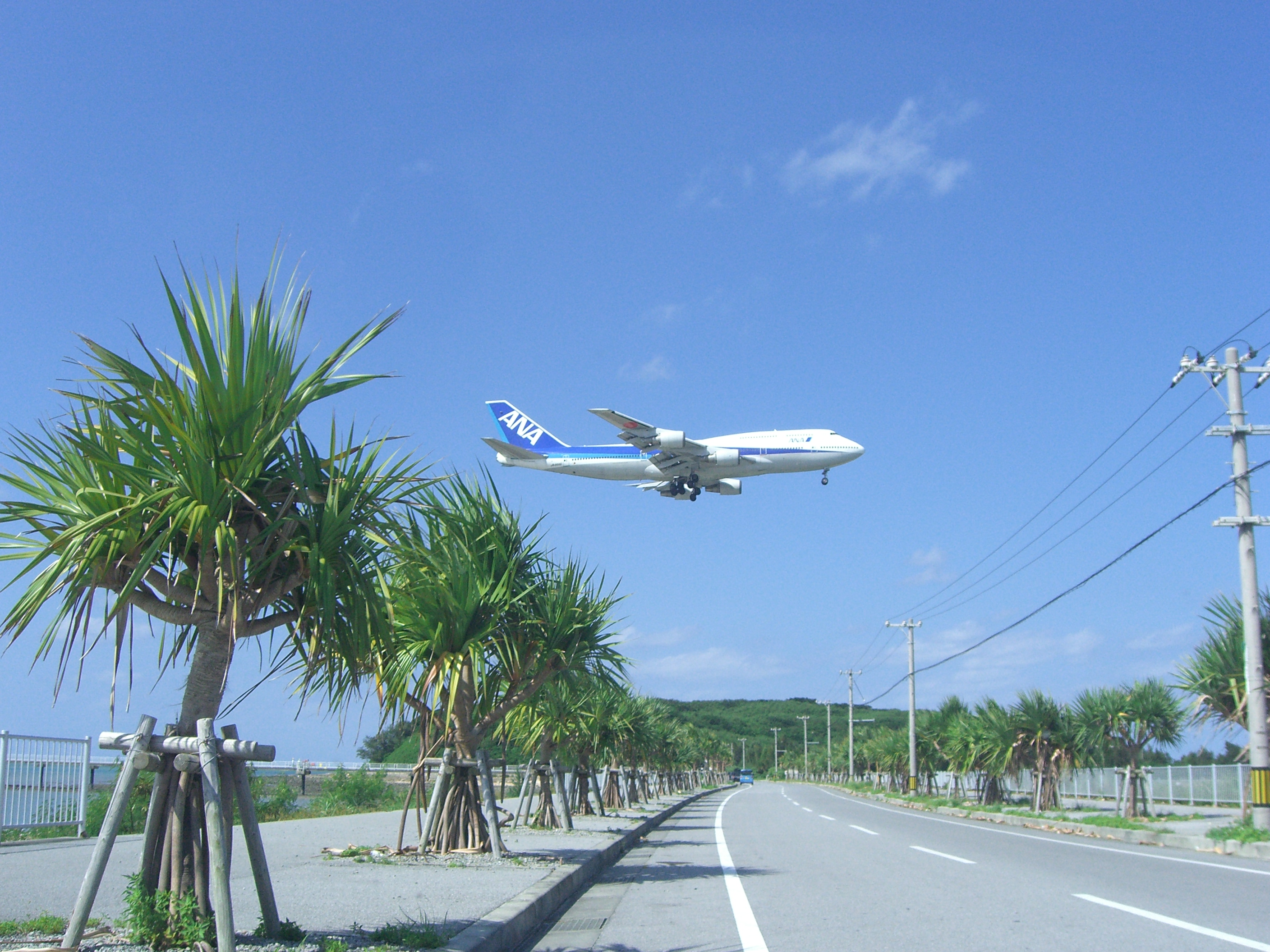 Senaga Island and the road to this island, Tomigusuku, Okinawa Prefecture, Japan.